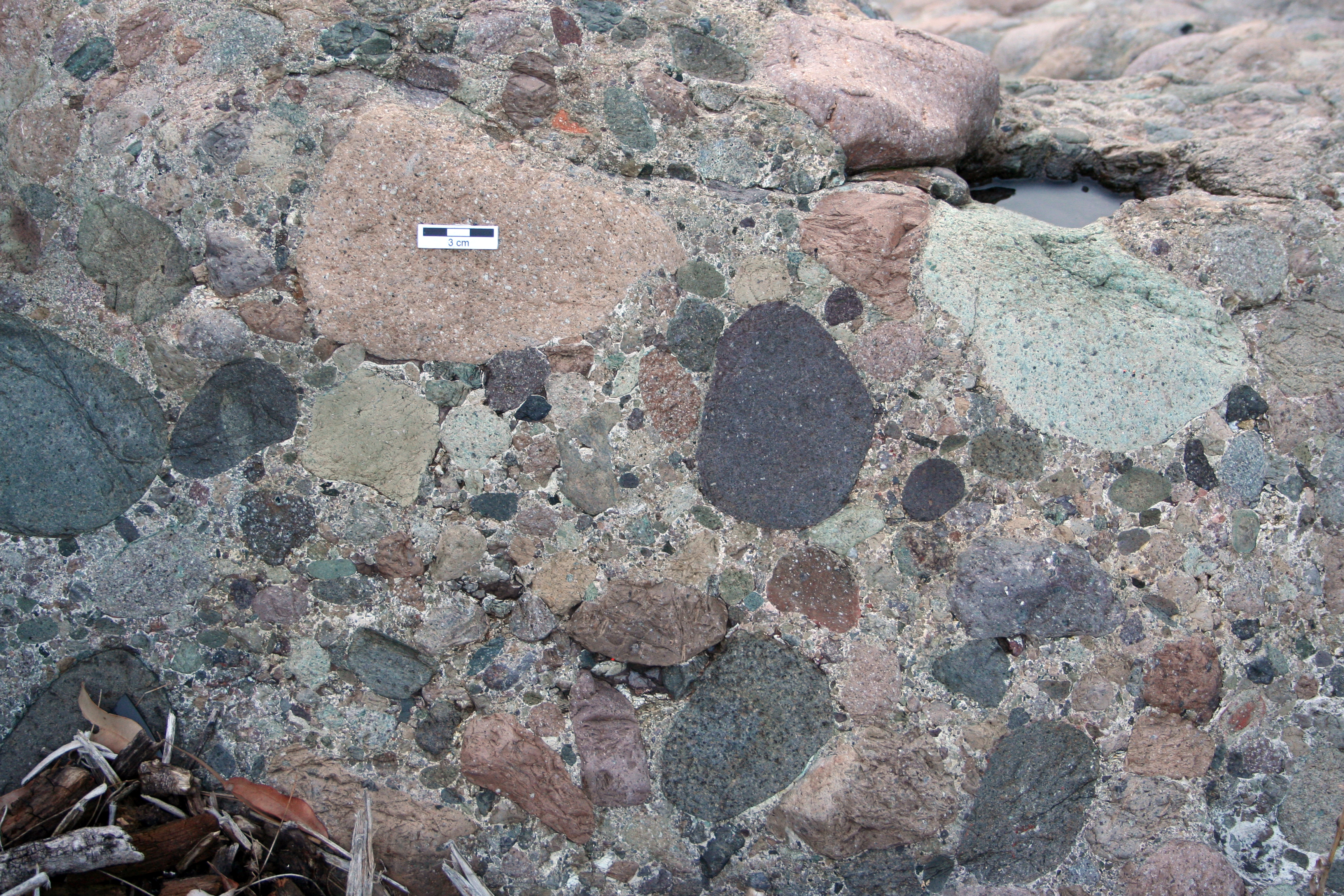 Clast-supported, polymictic conglomerate in the Woodton Formation (Permian), NSW, Australia.